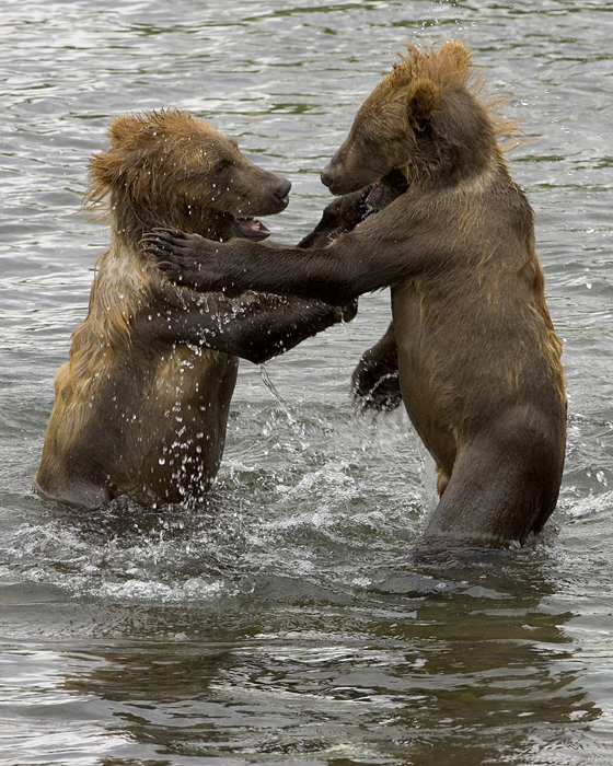 Brown bear cubs wrestling in the water